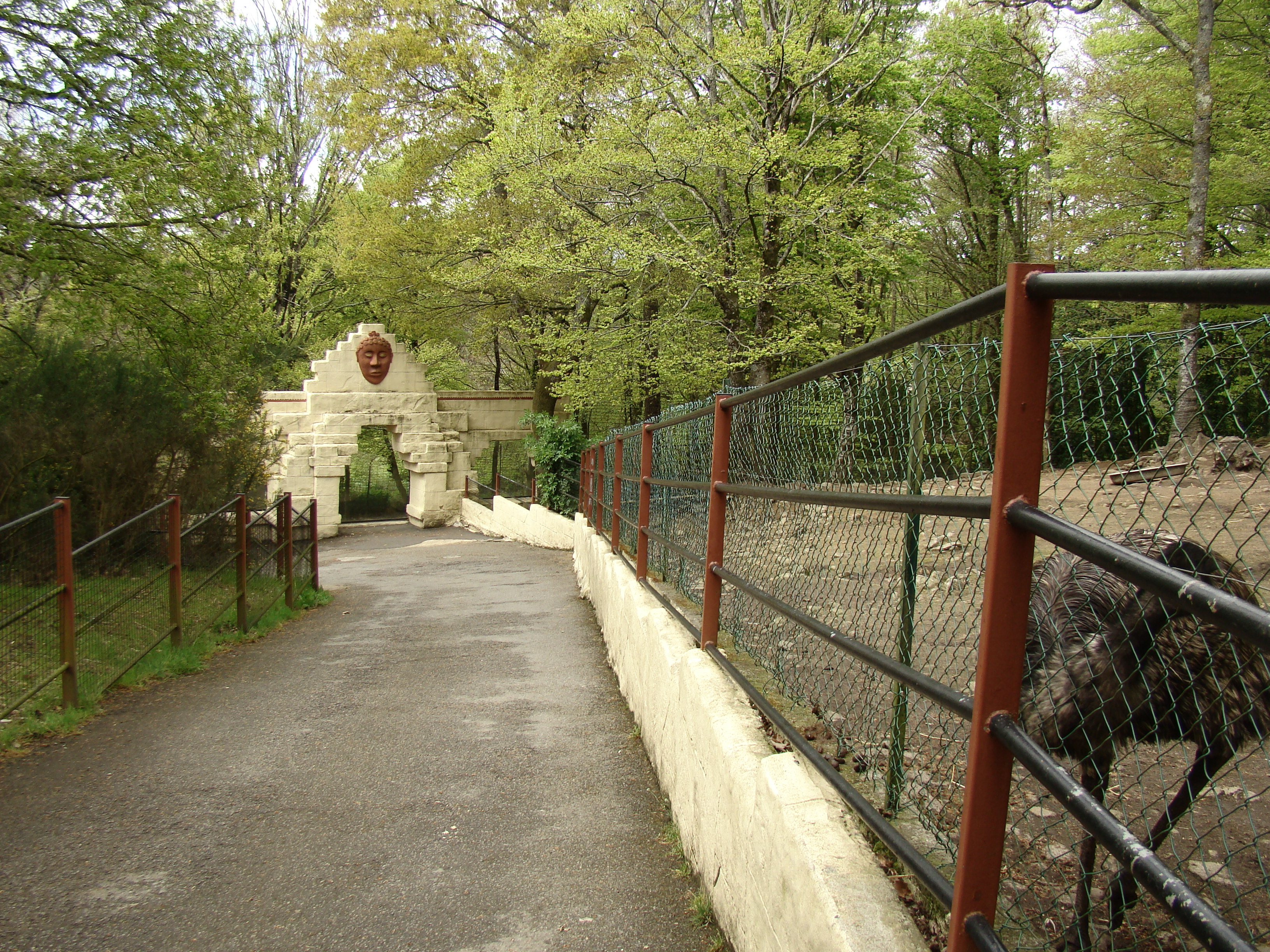 Pont-Scorff Zoo view.